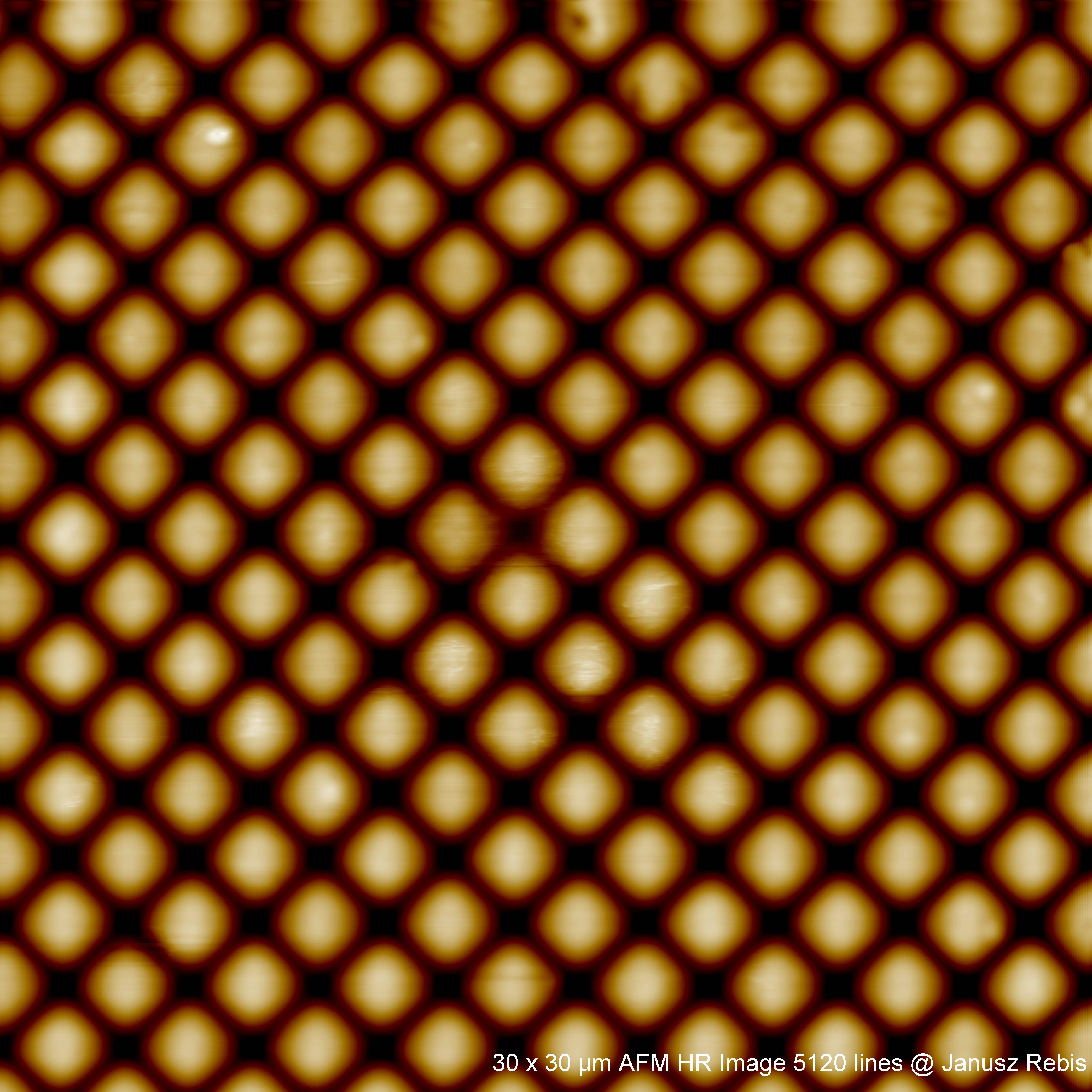 CCD sensor removed from Canon A75 digital camera.